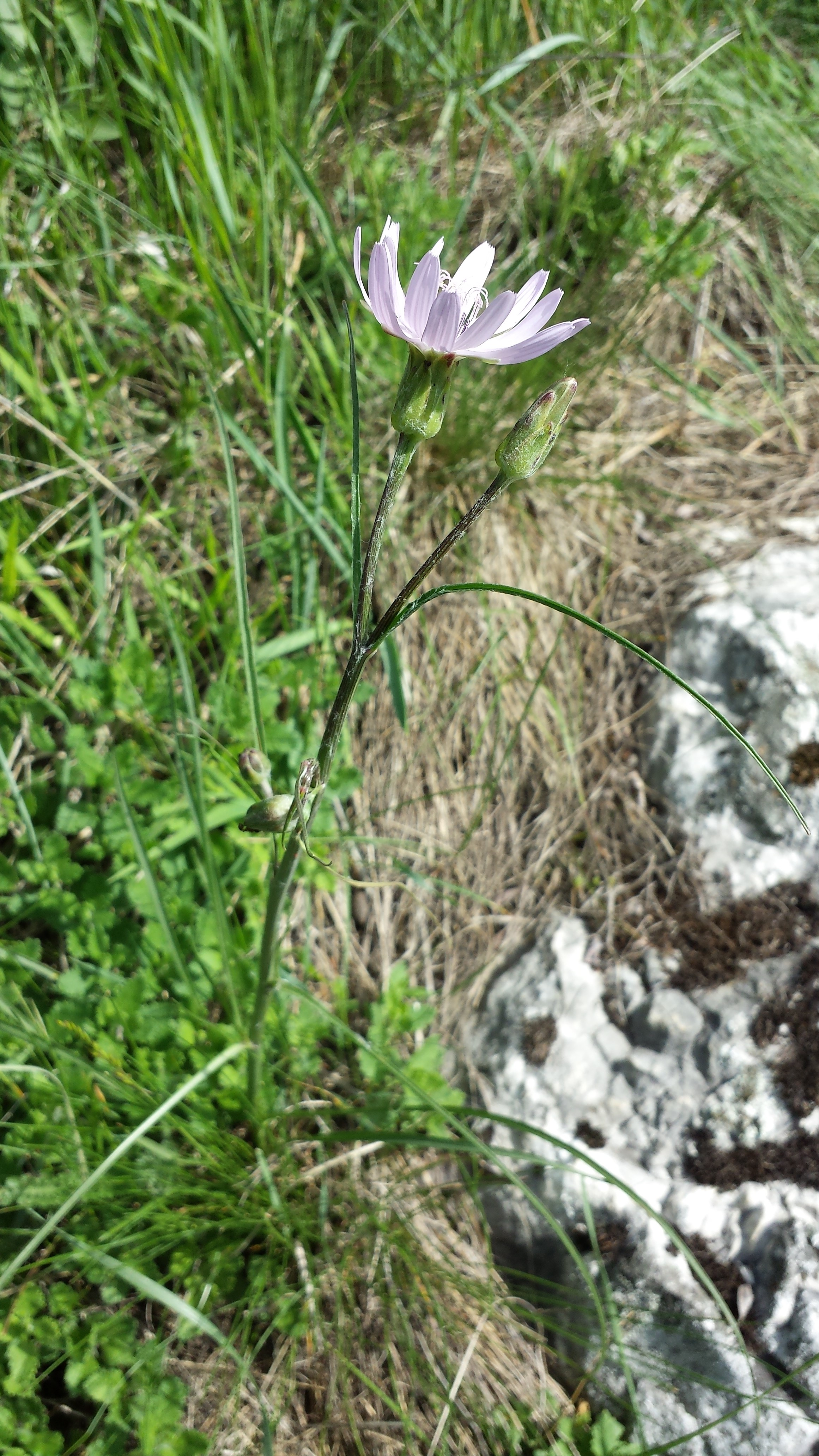 Taxon: Scorzonera purpurea Location: Steinbacher Heide, Leiser Berge, district Korneuburg, Lower Austria Habitat: on dry grassland Identified according to: Fischer et. al. ExFlora Austria etc. 2008